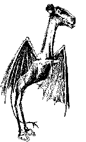 Semi-famous newspaper illustration of the New Jersey Devil, from Philadelphia Evening Bulletin, January 1909. It was drawn from an account of a Devil sighting by Nelson Evans of Glouchester, New Jersey, USA: "It was about three and a half feet high, with a head like a collie dog and a face like a horse. It had a long neck, wings about two feet long, and its back legs were like those of a crane, and it had horse's hooves. It walked on its back legs and held up two short front legs with paws on them. It didn't use the front legs at all while we [he and Mrs. Evans] were watching."